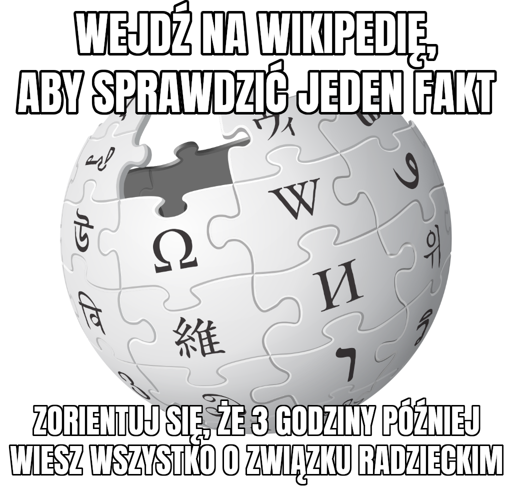 Wikipedia Internet Meme